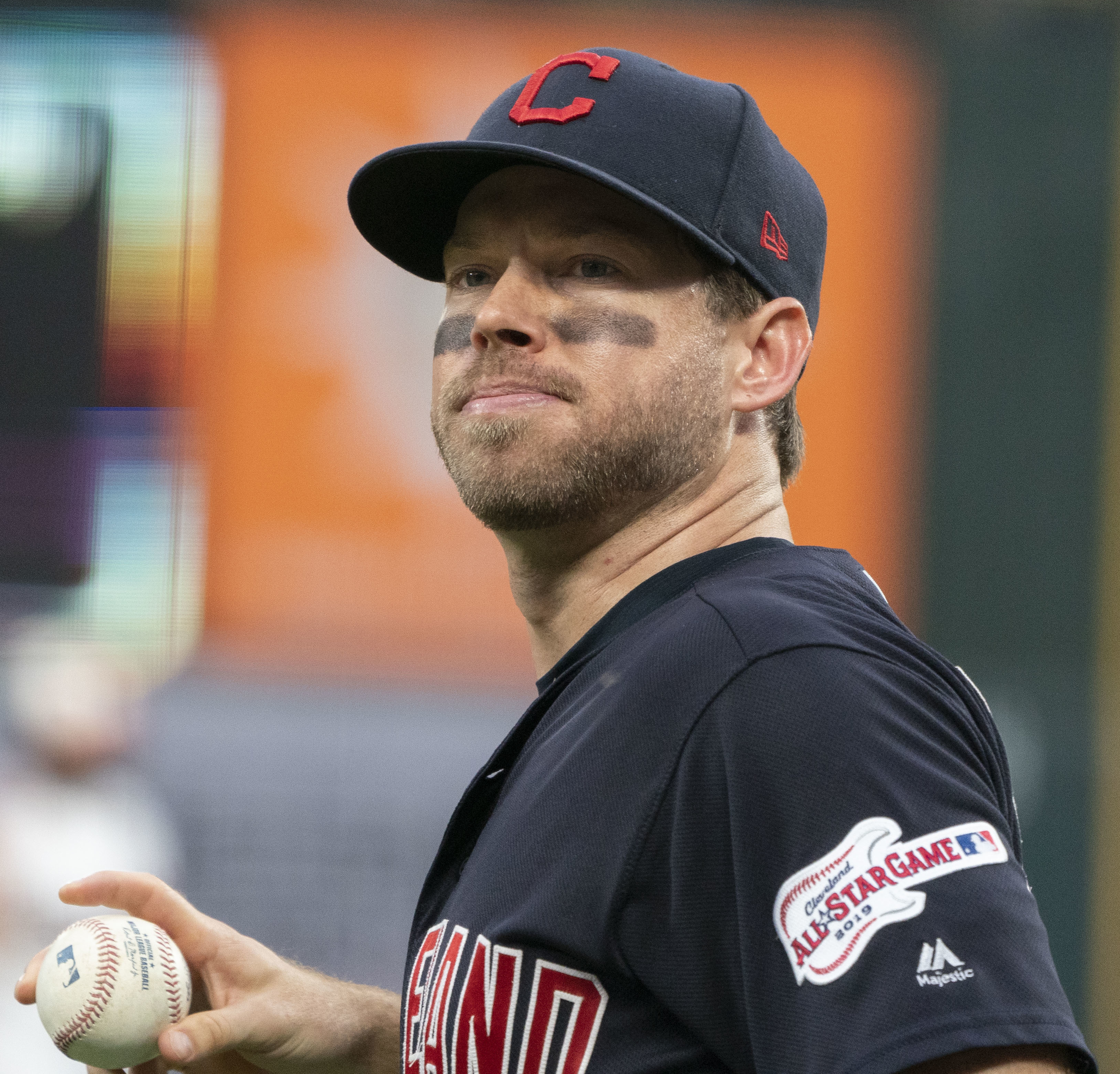 Mike Freeman with the Cleveland Indians during a game at Camden Yards in Baltimore in 2019